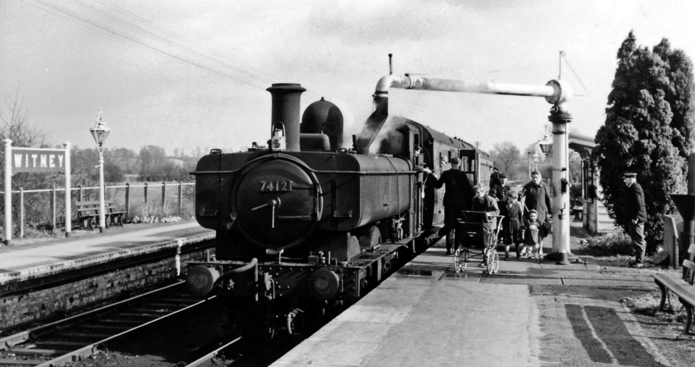 Witney station, with an Oxford - Fairford train. View eastward, towards Oxford: ex-GW Oxford - Fairford branch. The 12.44 from Oxford, headed by '7400' class 0-6-0PT No. 7412 (built 12/36), which is taking water while the driver exchanges the single-line tablet with the porter-signalman, has a sizeable family with pram as passengers. The service was withdrawn soon after on 18/6/62, but goods continued to come from Oxford as far as Witney until 2/11/60